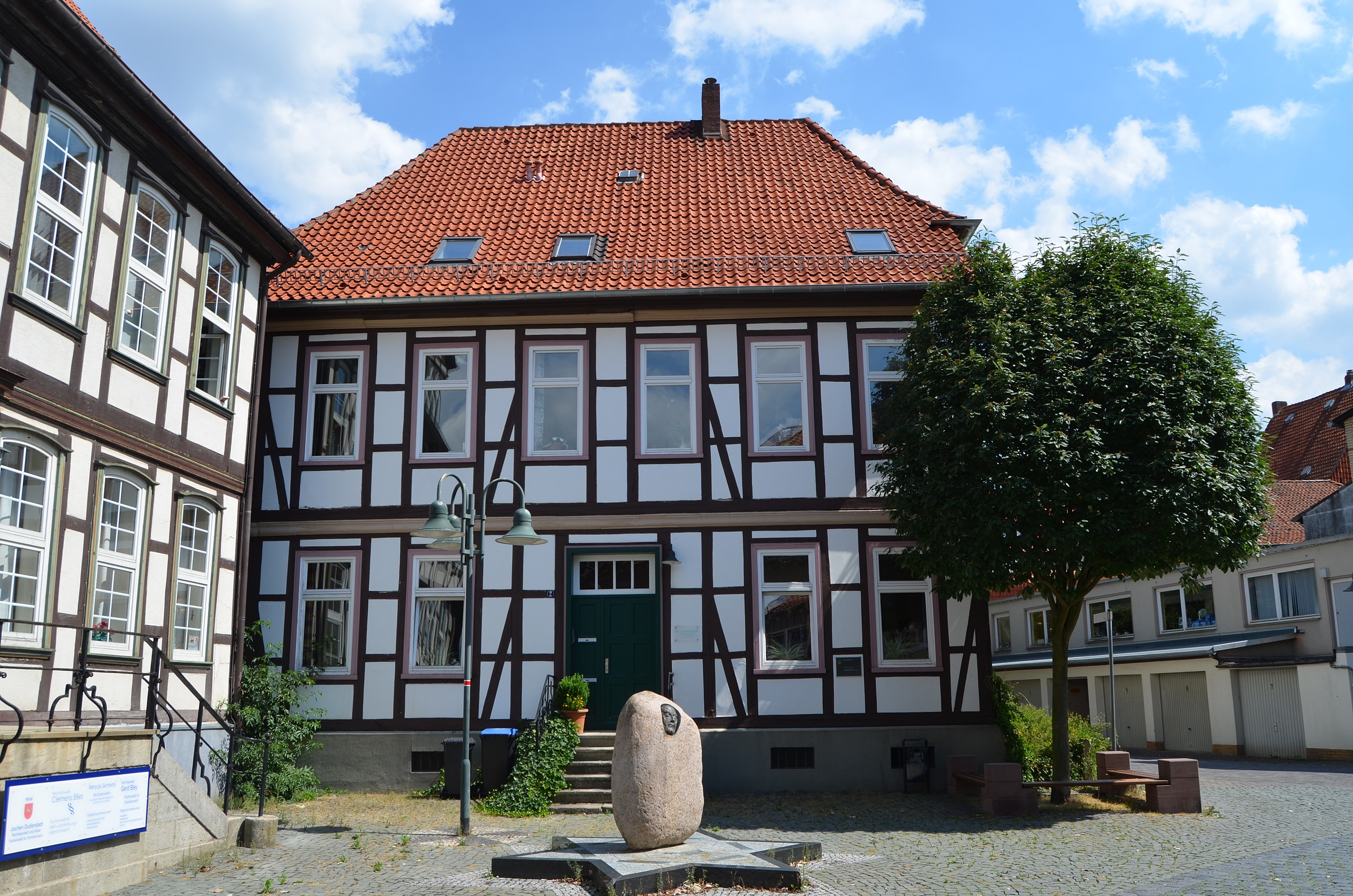 This is a photograph of an architectural monument.It is on the list of cultural monuments of Northeim This photograph was taken with a Nikon D7000 Northeim, Entenmarkt 2